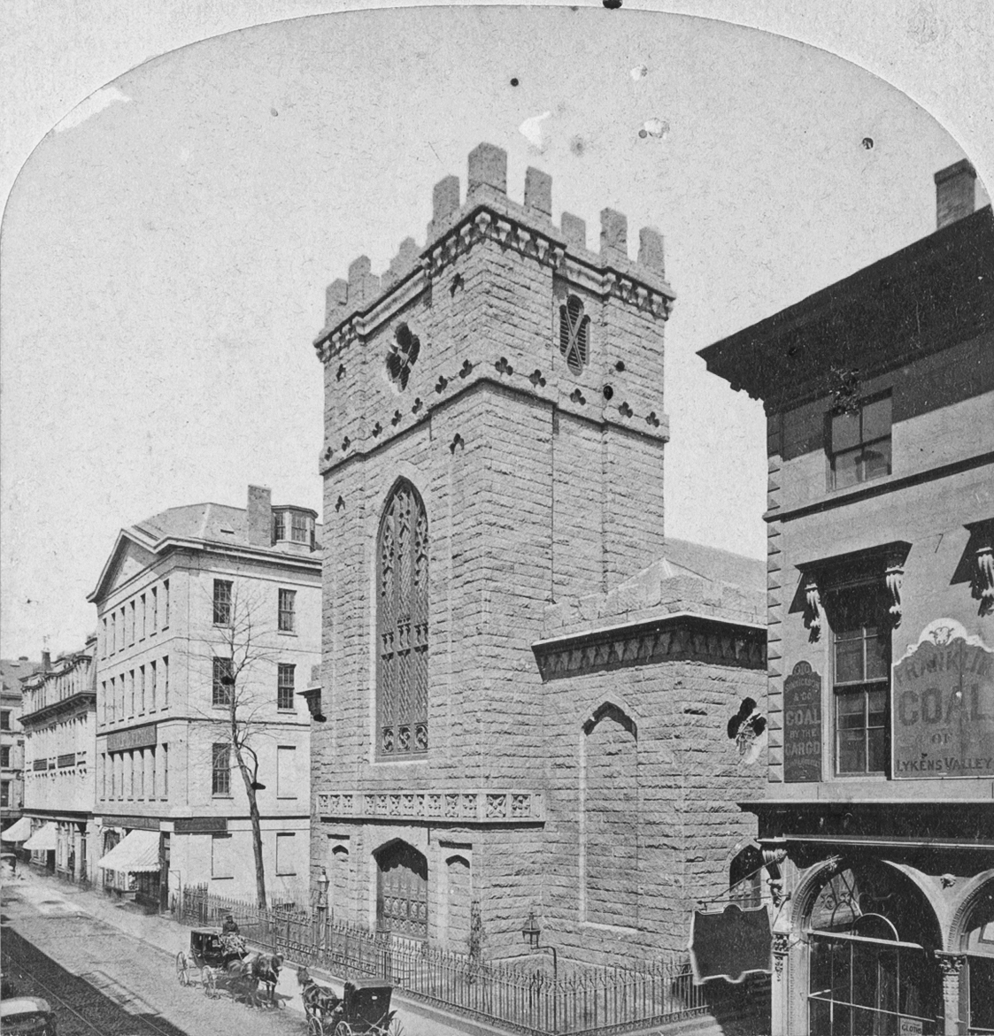 Accession No.: 06_11_000035 Title: Trinity Church, Summer St. Series: Descriptive Series. Boston and Neighborhood Local Subject: Churches Subject: Boston (Mass.) Format: Sterographs BPL Department: Print